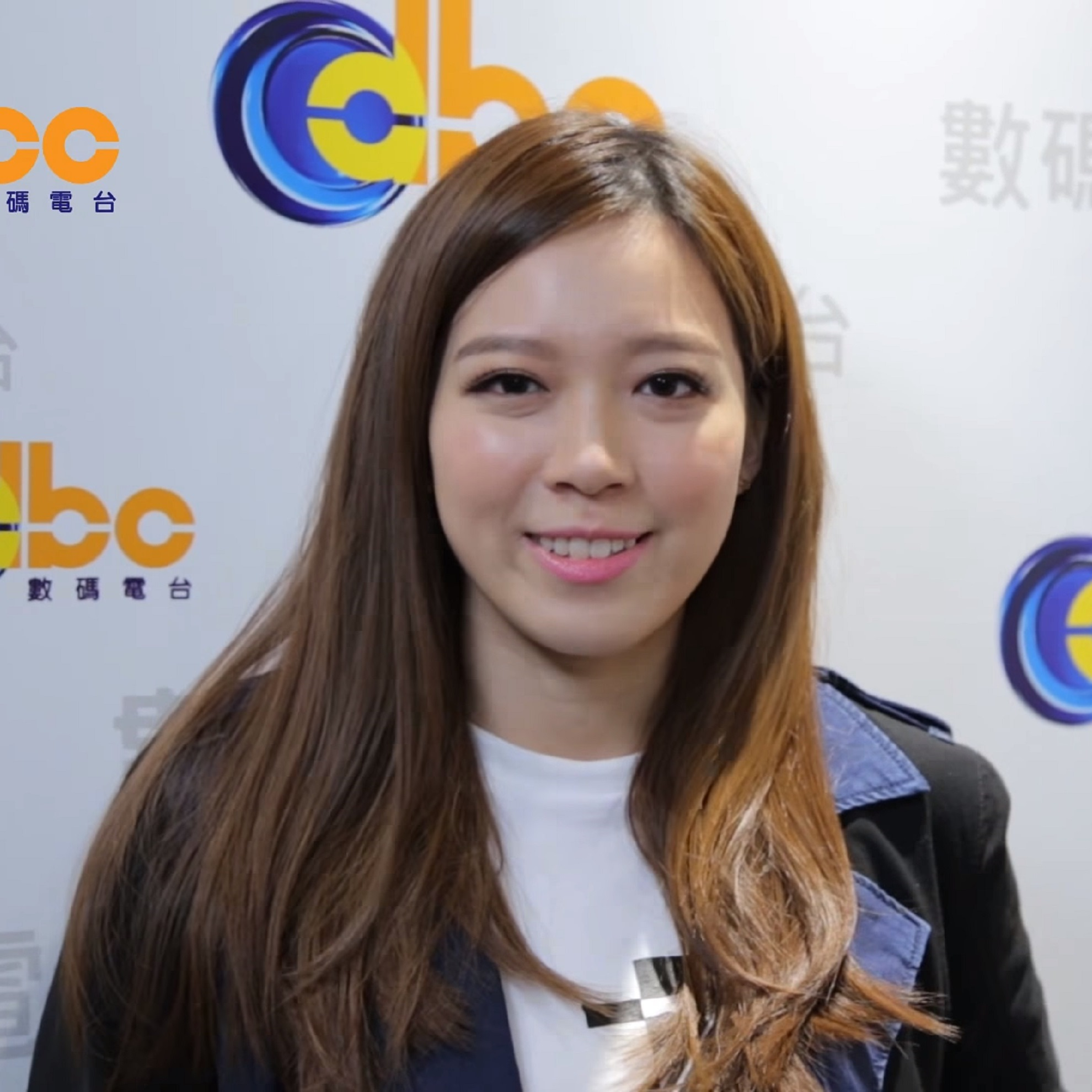 Adrian Wong